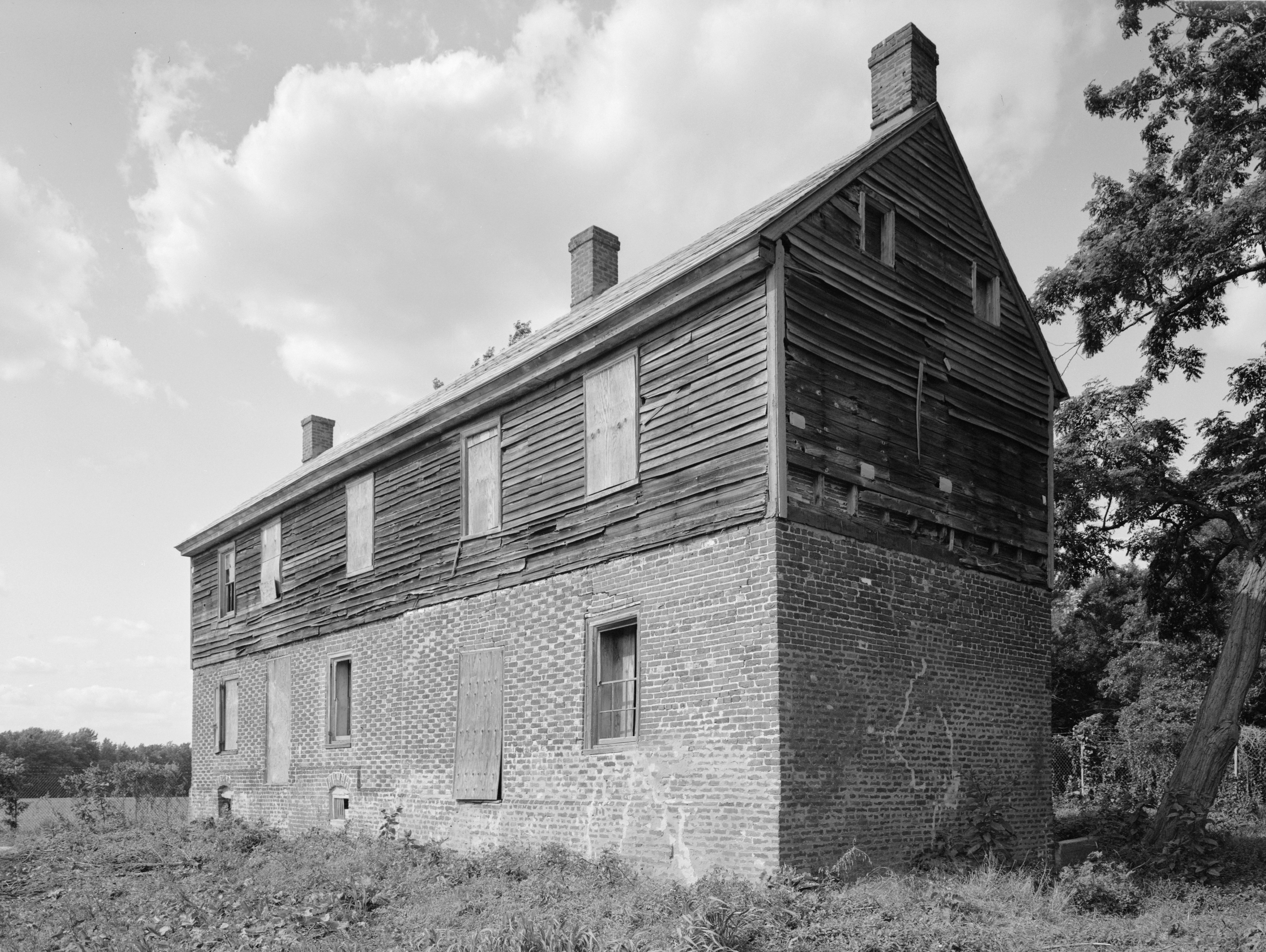 SOUTHWEST FRONT FROM SOUTH - Kingston-Upon-Hill, Kitts Hummock Road, Dover, Kent County, DE